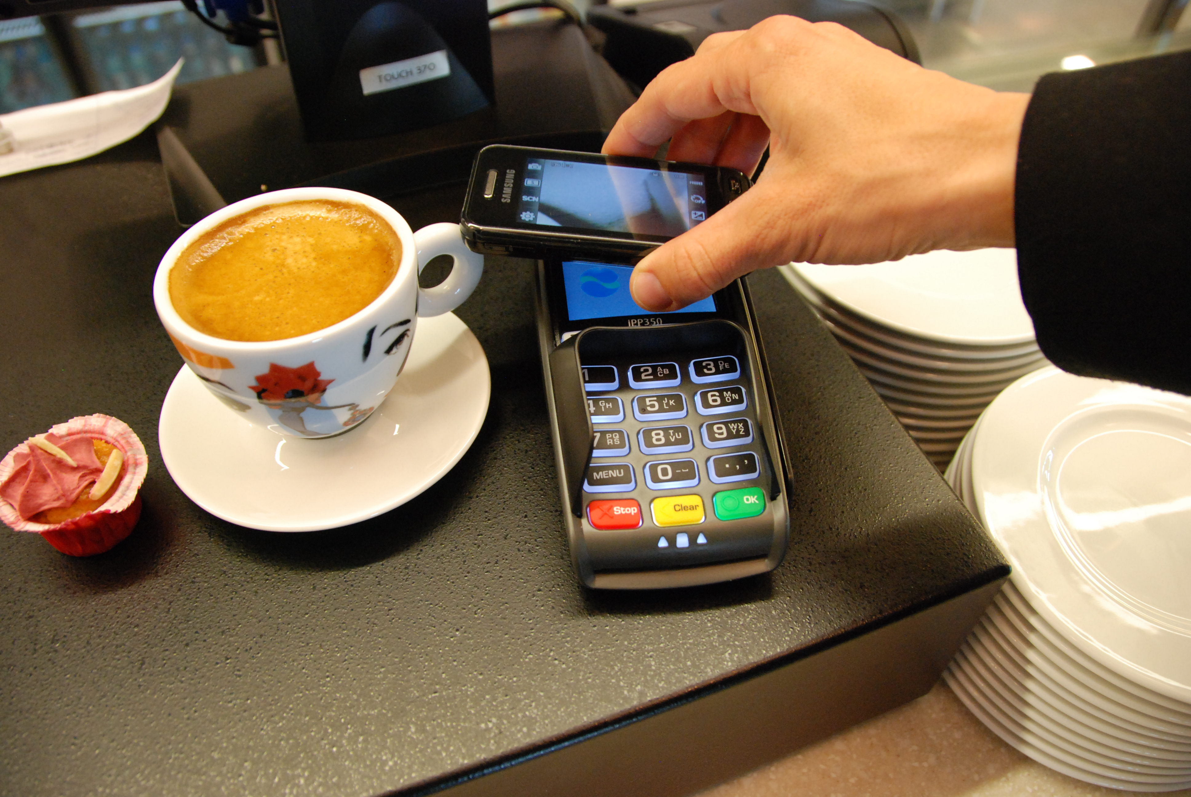 Mobile payment terminal, in Fornebu, Norway. Operated by NFC technology. Telenor.